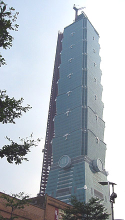 Taipei 101 under construction.